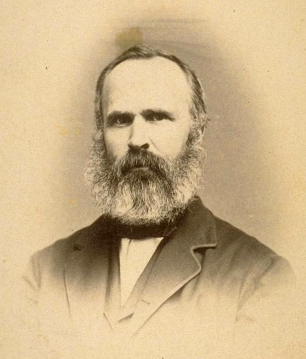 Josiah Whitney, American geologist, professor of geology at Harvard University (from 1865), and chief of the California Geological Survey (1860–1874).